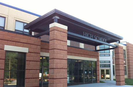 UHS